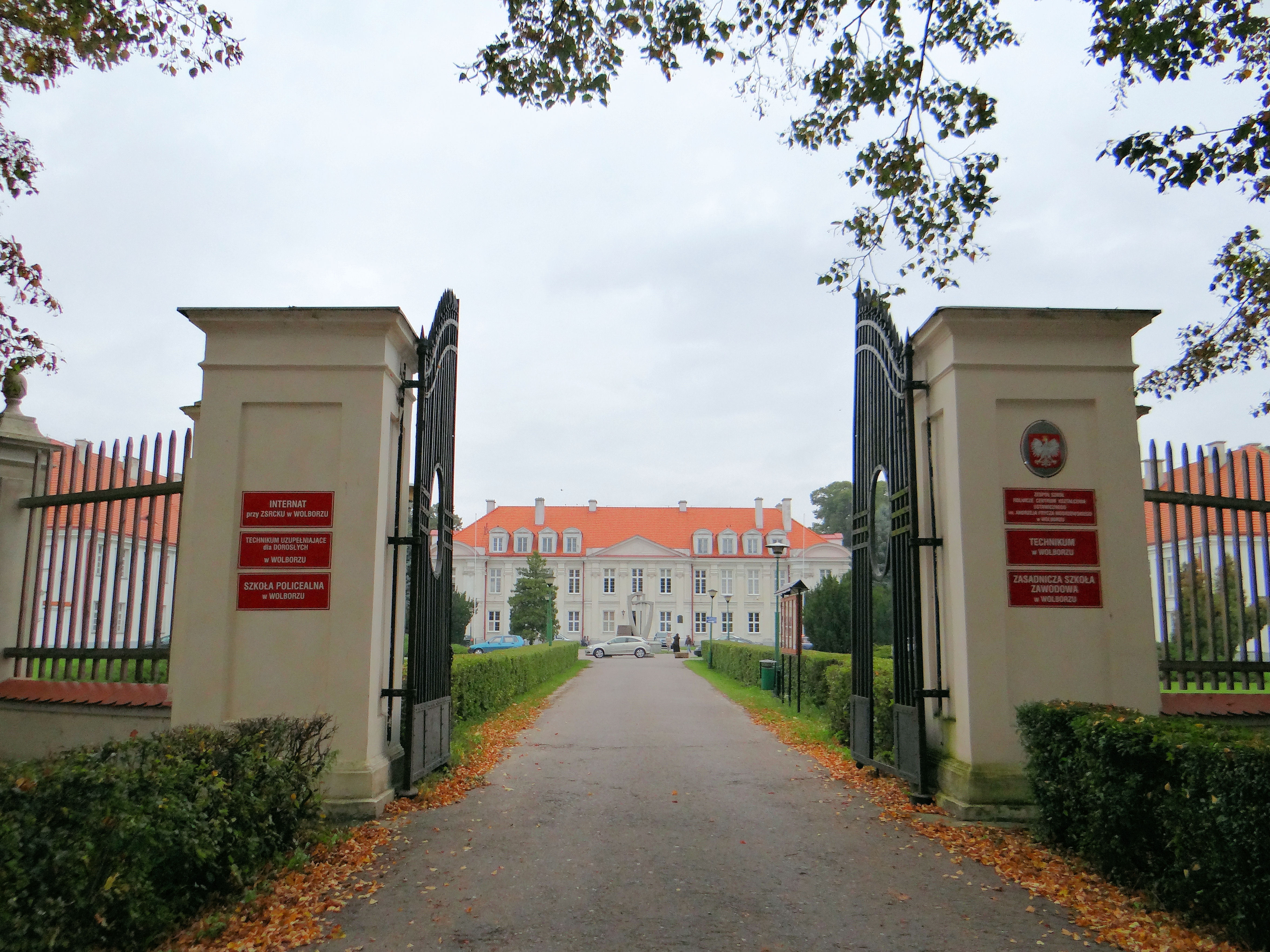 Gate of Bishops Palace in Wolbórz